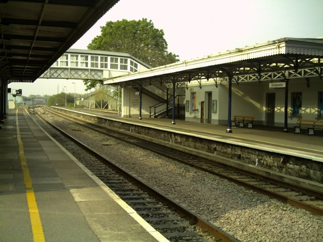 Bridgwater Railway Station, Bridgwater, Somerset, England